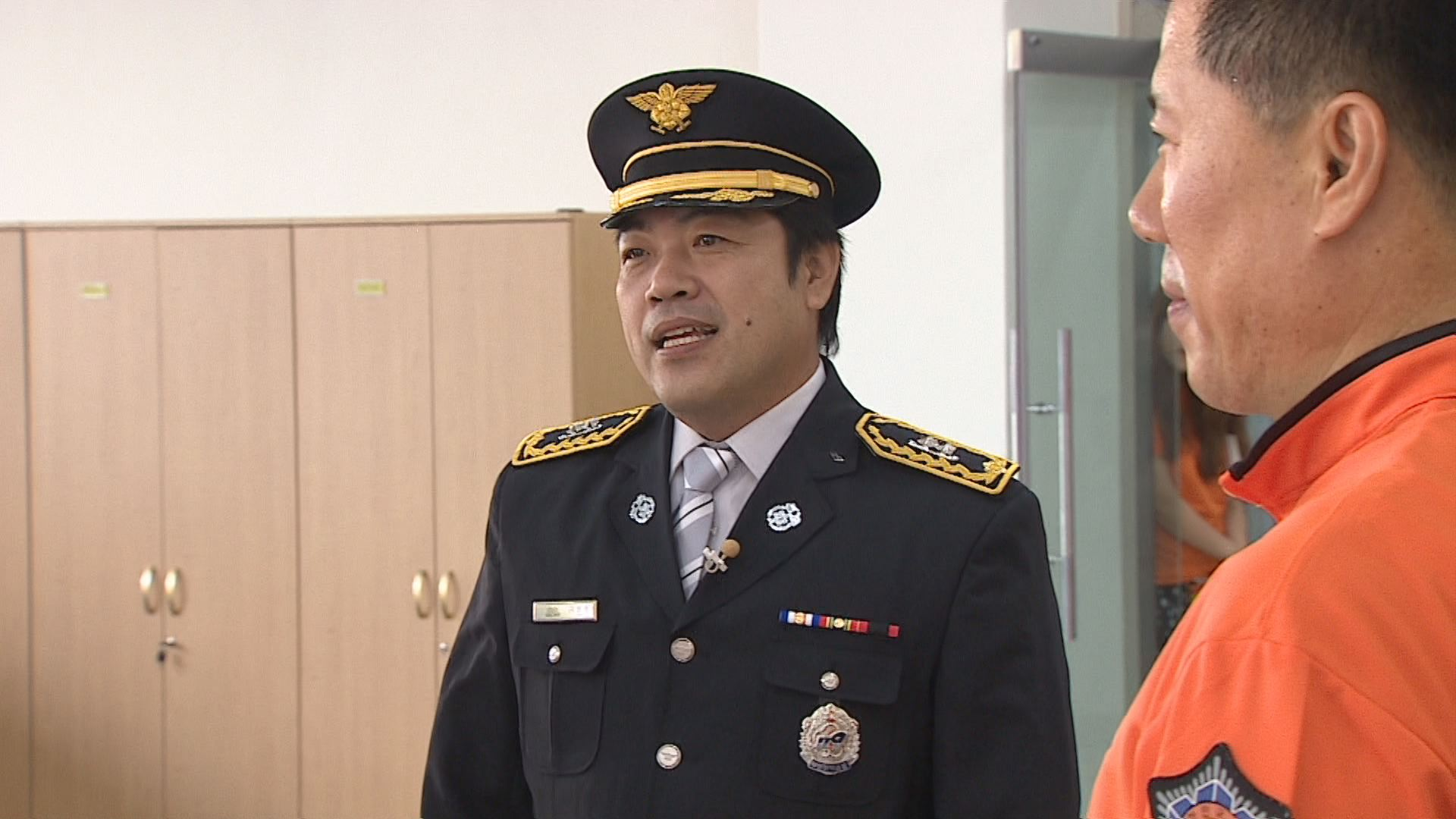 서울특별시 소방재난본부 소장 사진. Photos of Seoul Metropolitan Fire and Disaster Headquarters. Declaration of consent(sent to ). 이 파일은 크리에이티브 커먼즈 저작자표시-동일조건변경허락 4.0 국제 라이선스로 배포됩니다. 단 누구인지 구별 가능한 특정 인물이 사진에 포함되어 있을 경우 사용 전에 서울특별시 소방재난본부 및 해당 인물의 승인을 받으셔야합니다. 감사합니다.